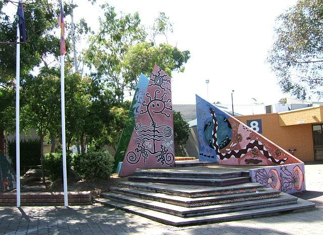 Sculpture at Parks Community Centre in Angle Park, South Australia